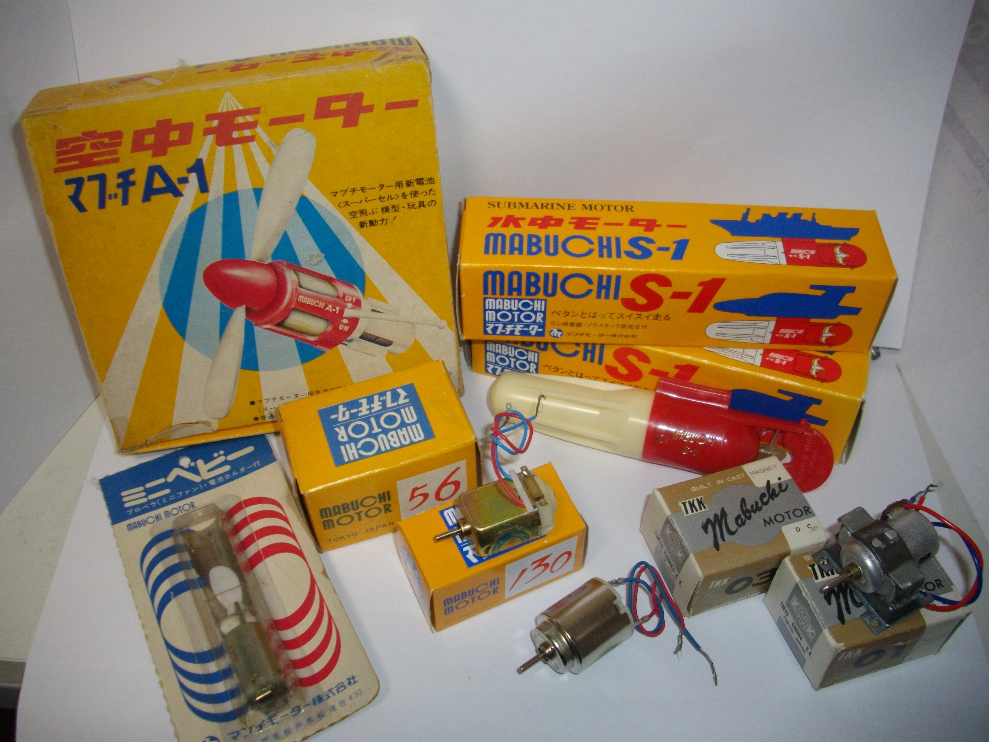 Mabuchi toy motors, including A-1, FA-130, RE-56, S-1, TKK 01, TKK 03